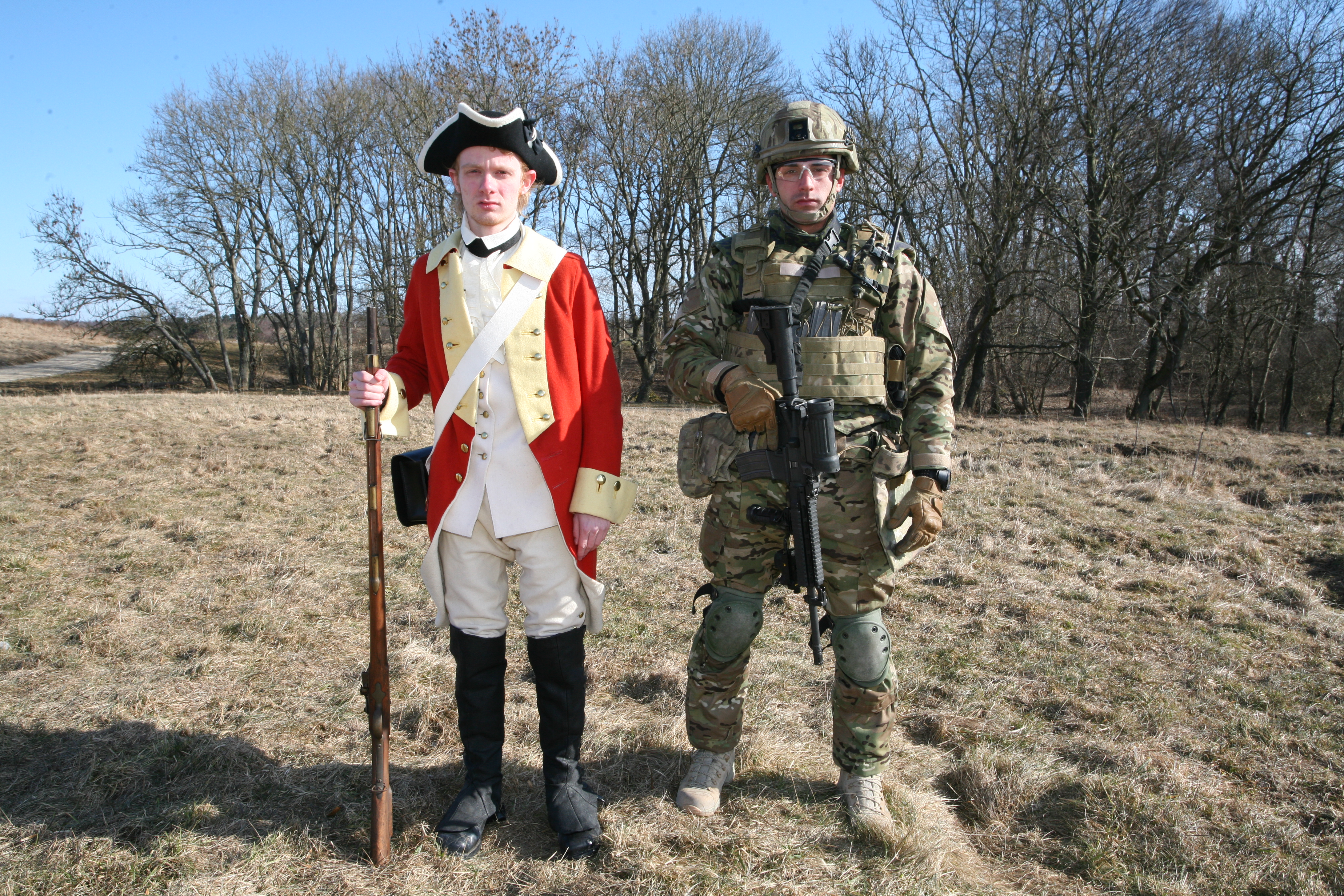 A comparison between the first Danish army uniform from the 1700 hundreds and a modern uniform